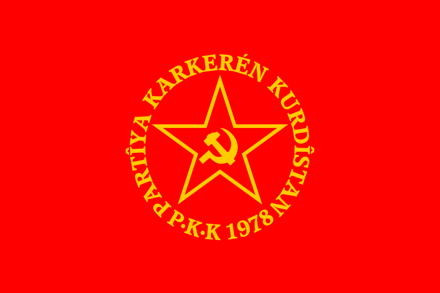 Second flag of the Kurdistan Workers' Party 1995-2000